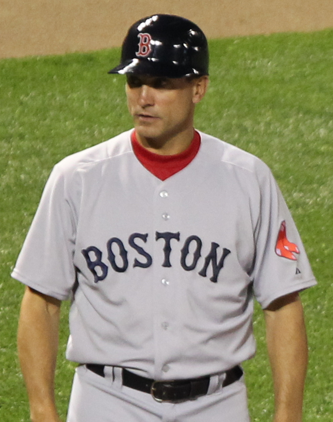 Boston Red Sox 3rd base coach Tim Bogar, April 26, 2011